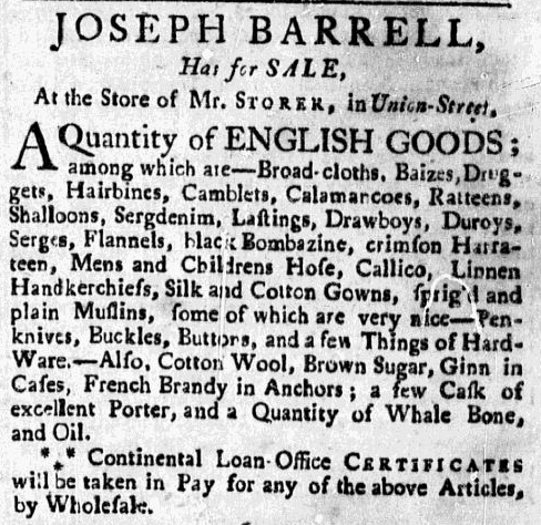 Newspaper item related to Boston merchant Joseph Barrell (1740-1804)